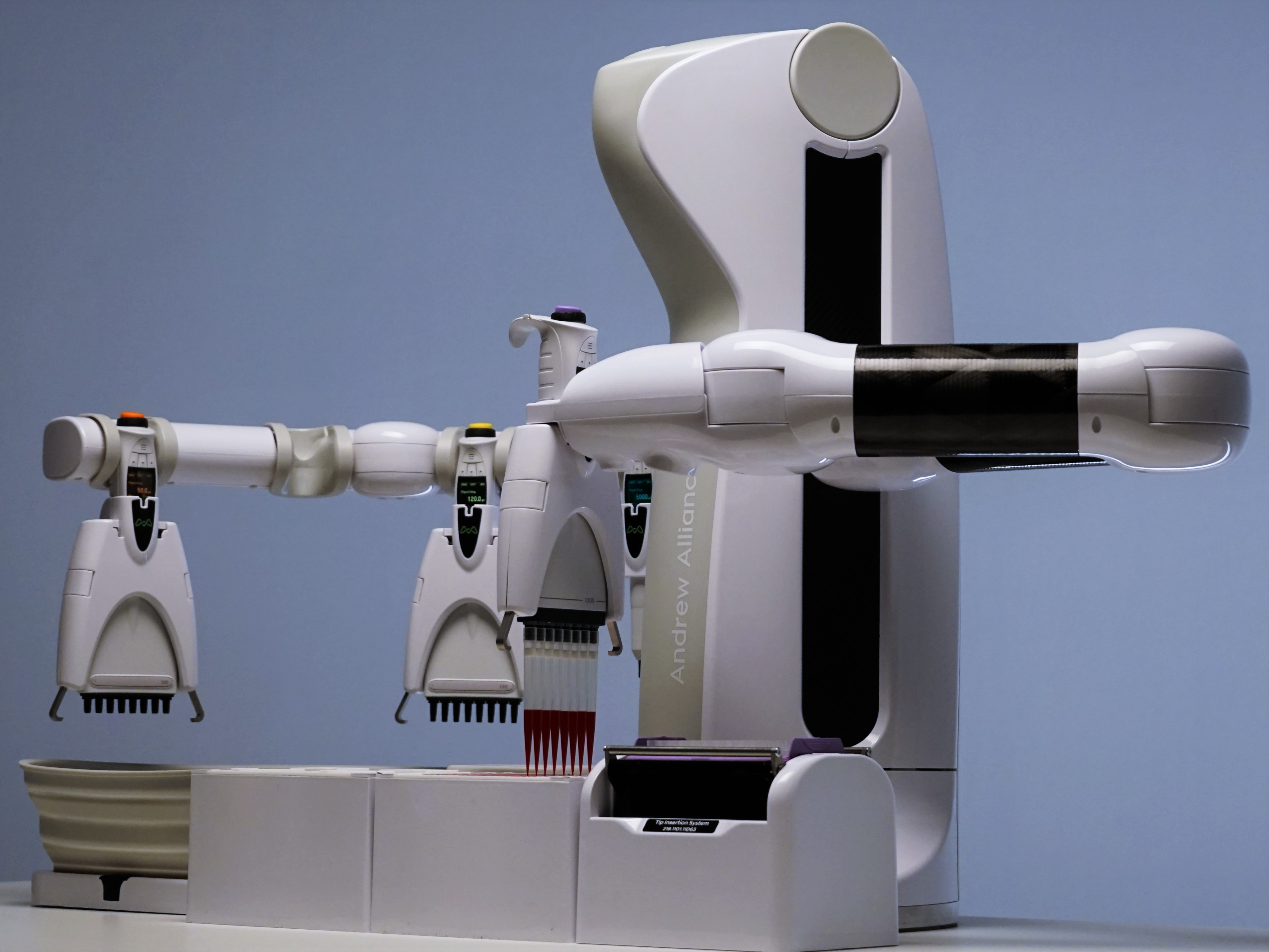 Andrew+ liquid handling robot by Andrew Alliance. Device capable to manipulate Bluetooth electronic pipettes for biological and chemical experiments in the laboratories